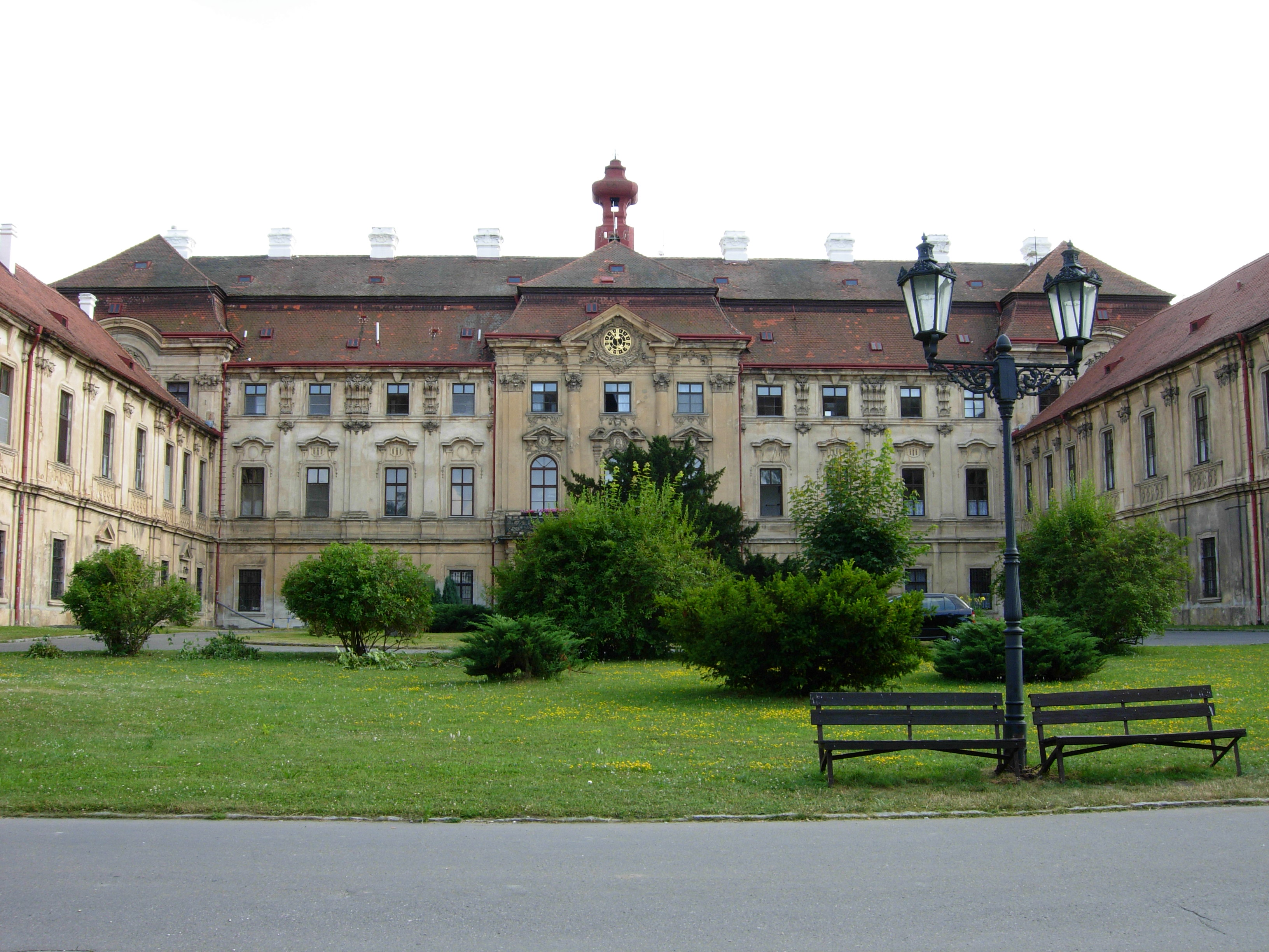 Castle in Měšice, Czech Republic.